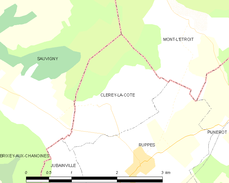 Map of French municipality Clérey-la-Côte